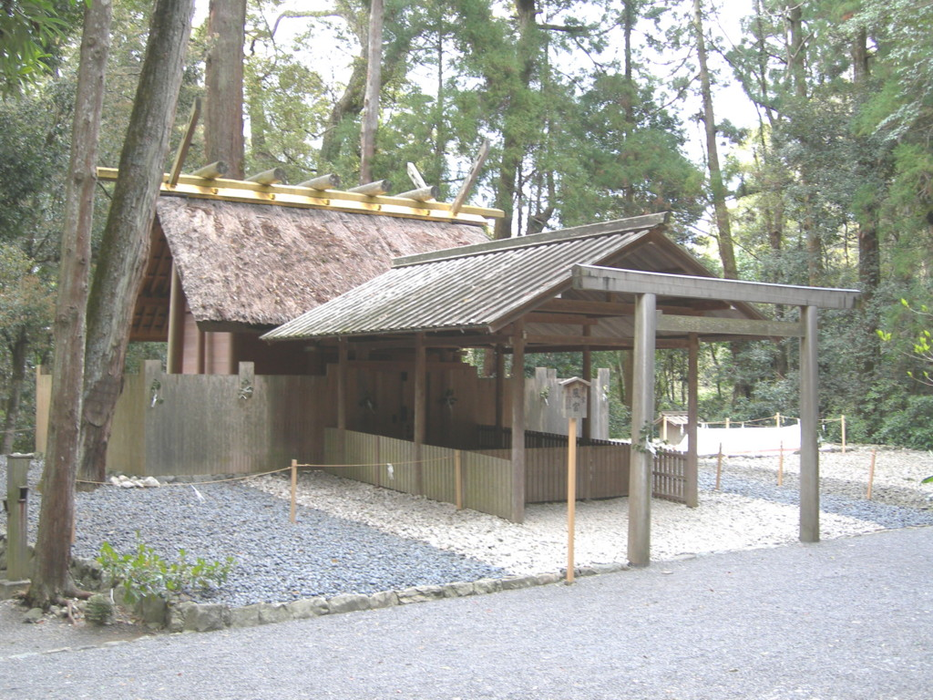 The Betsugu Kaze-no-miya Sanctuary of Toyoukedaijingu (Gekū) at Ise city, Mie prefecture, Japan.